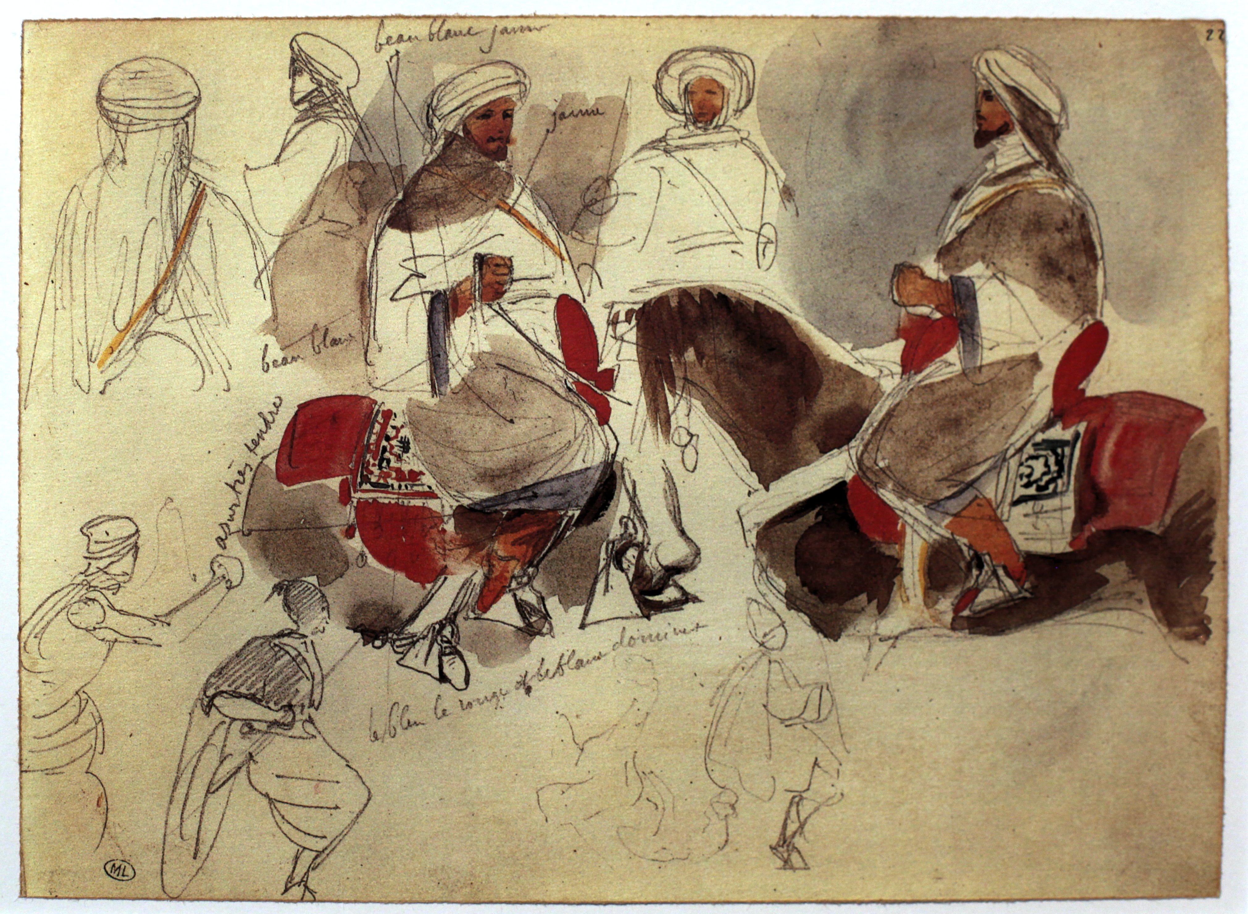 Sketchbook of Delacroix, notes from a journey to Morocco.